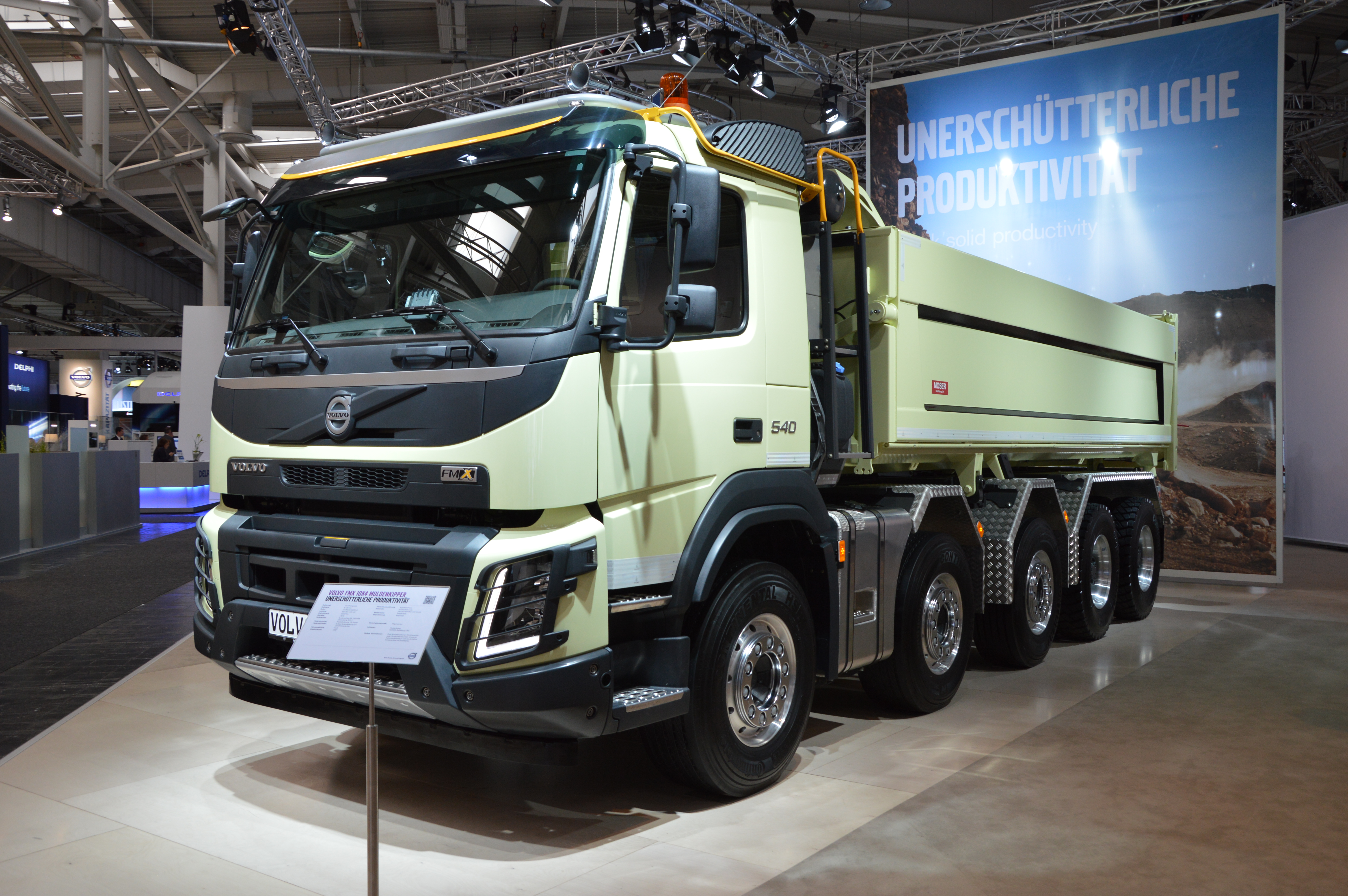 Volvo FMX 10x4 dump truck. Photo taken at exhibition IAA 2014 in Hanover, Germany